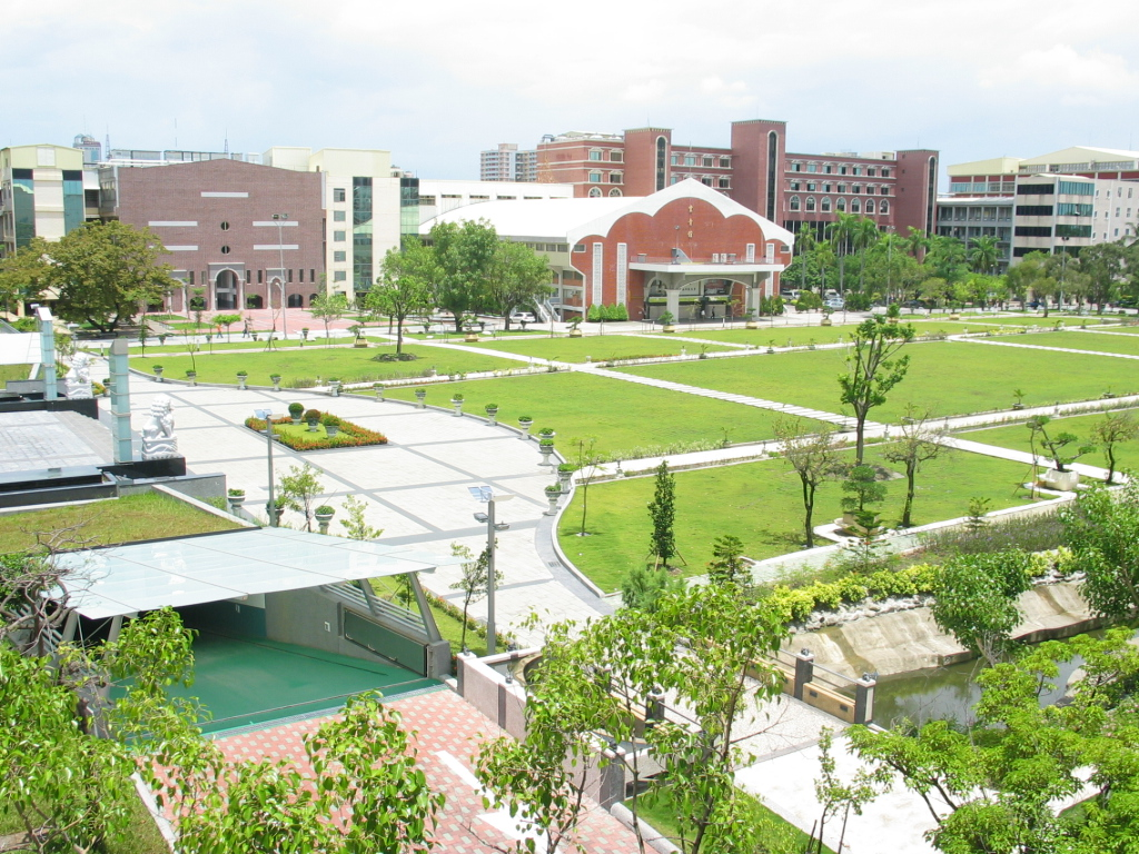 Kun Shan University of Technology,Taiwan